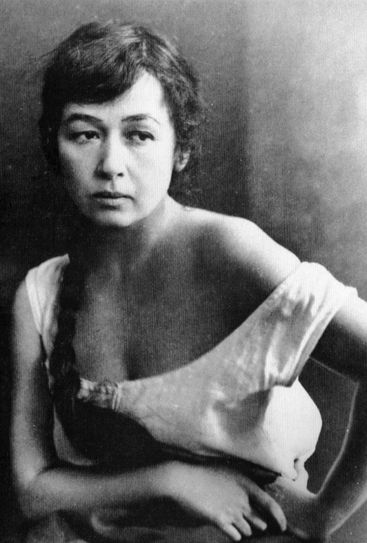 Photo of Harriet Bosse as Steinunn in The Wish.